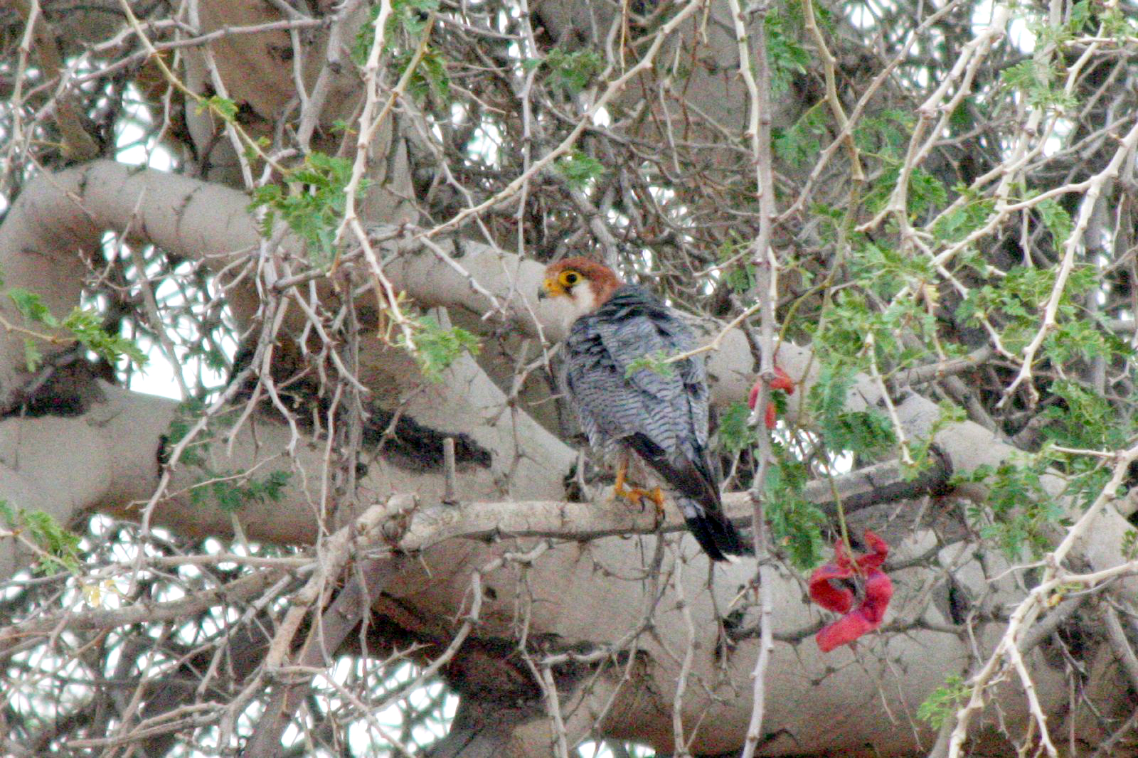 A rather poor record shot. Falco chicquera ruficollis (or F. c. horsbrughi), Namibia